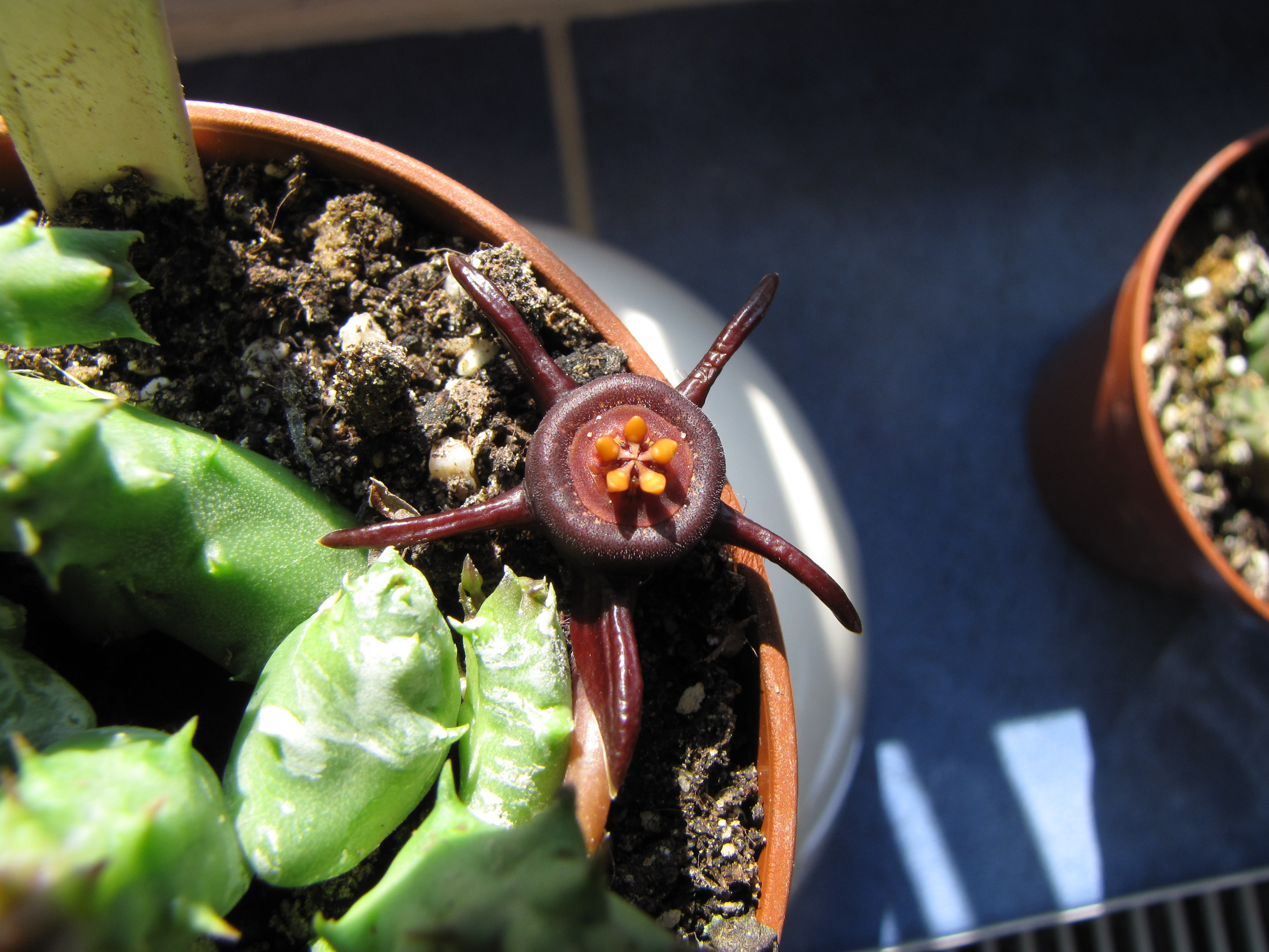 Duvalia caespitosa, Asclepioideae, Apocynaceae